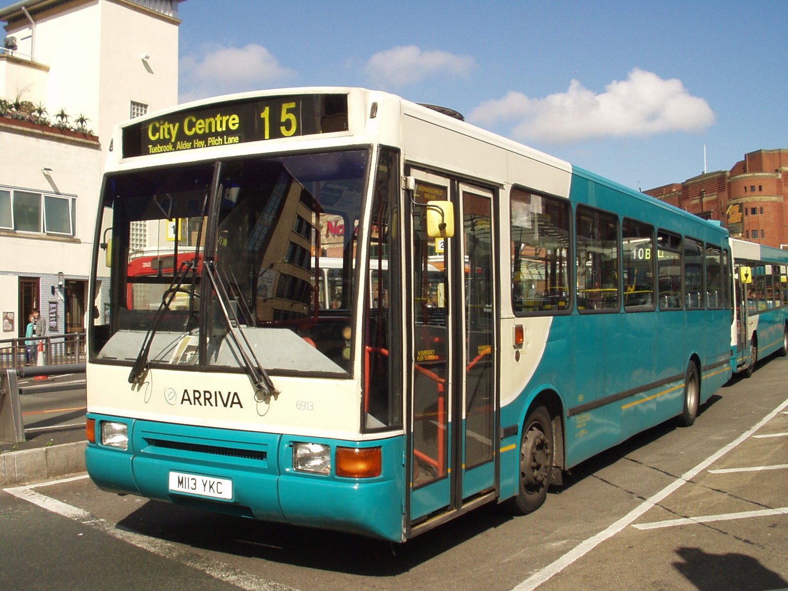 Northern Counties Paladin bodywork (with barrel-shaped front end) on Volvo B10B chassis (M113 YKC) - Arriva North West and Wales 6913 in Queen Square Bus Station, Liverpool.